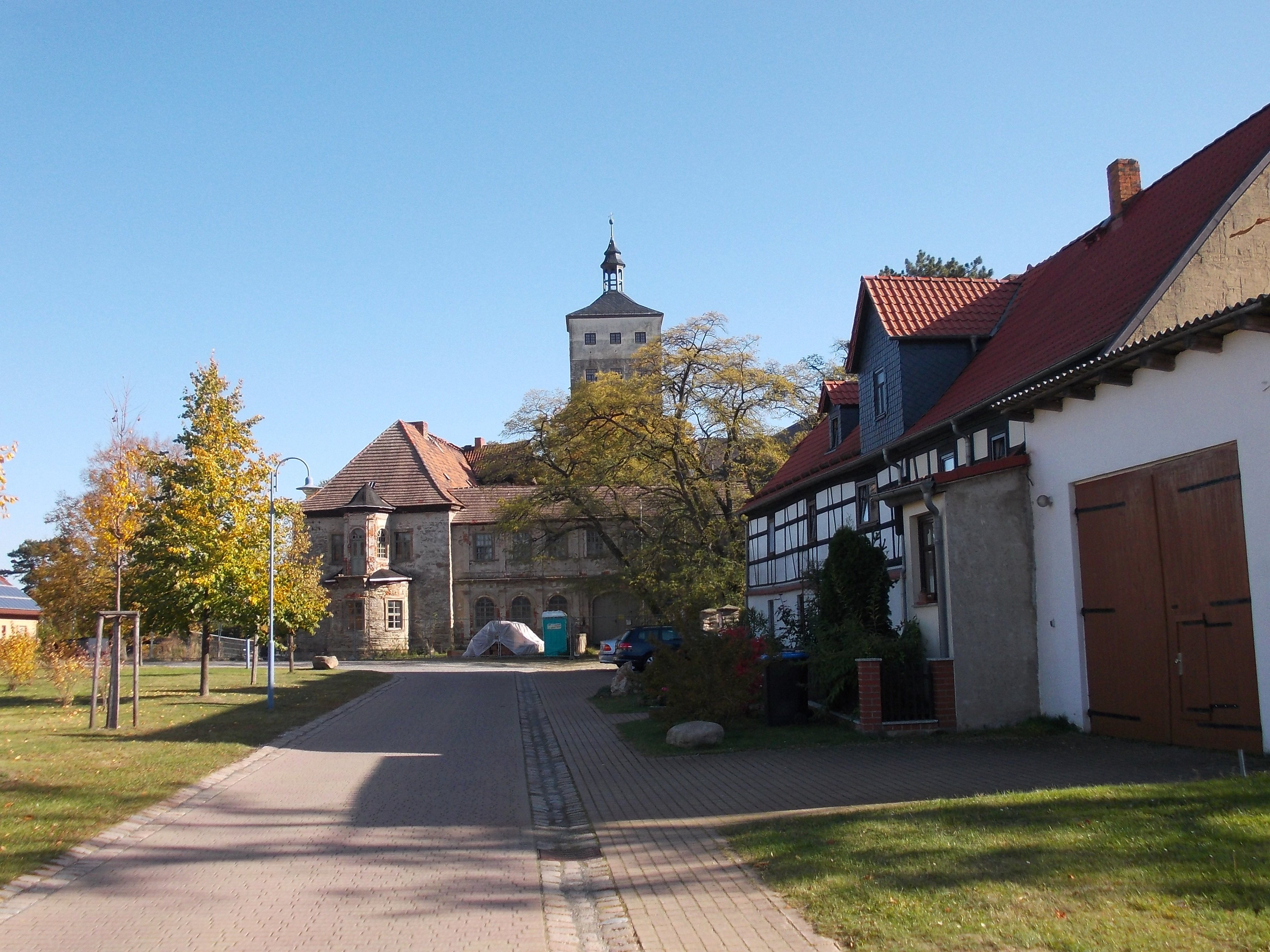 Heuckewalde Castle (Gutenborn, district of Burgenlandkeis, Saxony-Anhalt)